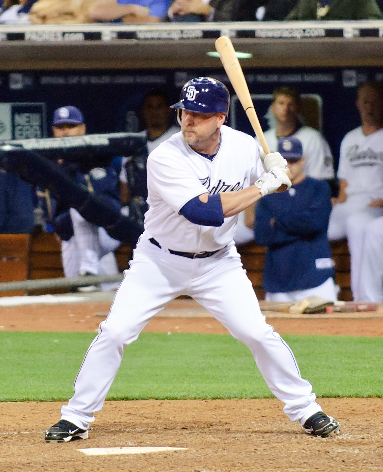 Matt Stairs, San Diego Padres baseball player.